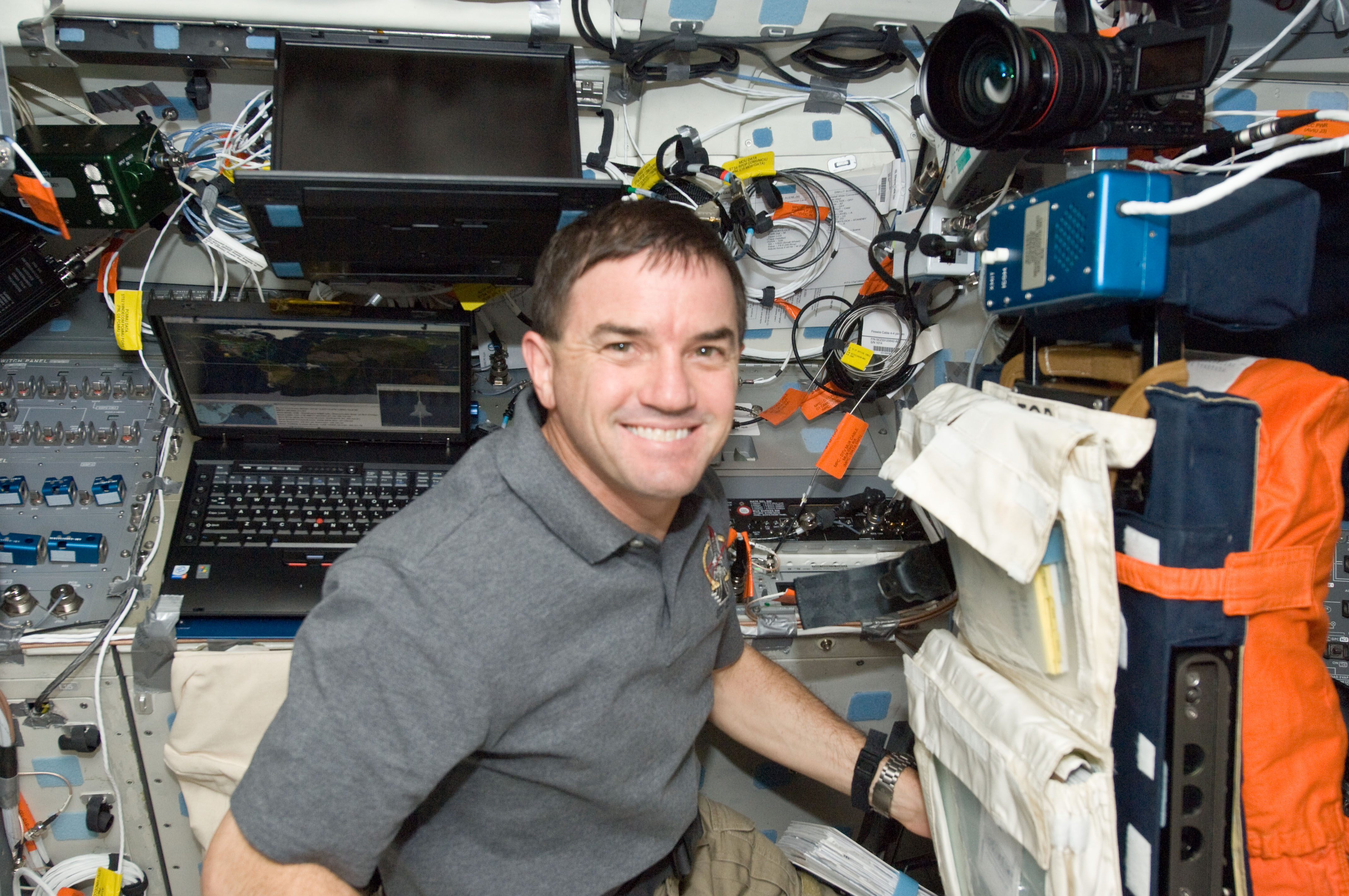 NASA astronaut Rex Walheim, STS-135 mission specialist, is pictured on the flight deck of the space shuttle Atlantis during the mission's fourth day of activities in Earth orbit and second day while being docked with the International Space Station.